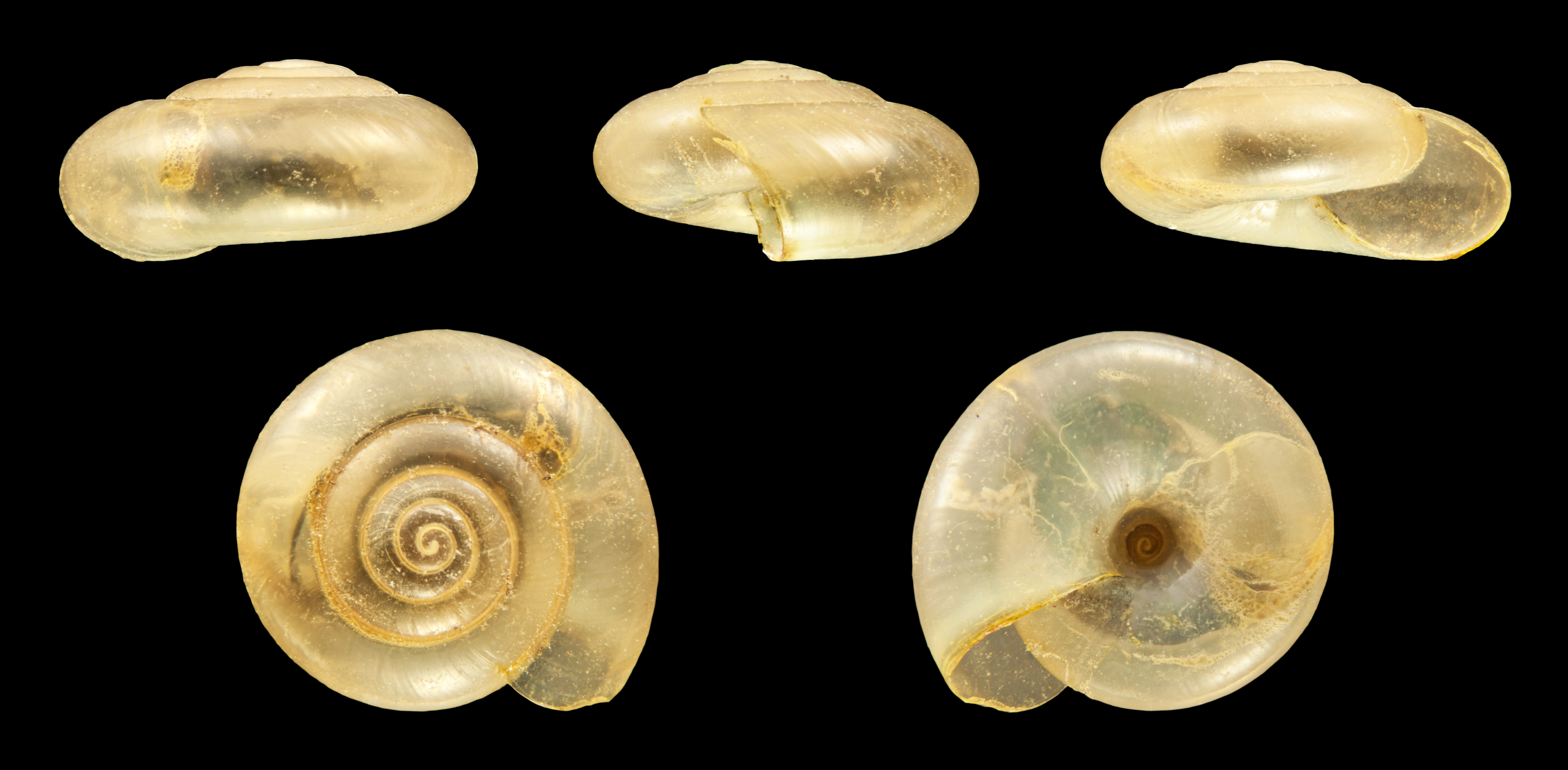 Oxychilus alliarius (Miller, 1822), Garlic Glass-snail; Diameter 0.8 cm; Originating from Rappenwörth, Karlsruhe, Germany 49°0′1.64″N 8°18′43.02″E / 49.0004556°N 8.31195°E. Shell of own collection, therefore not geocoded.